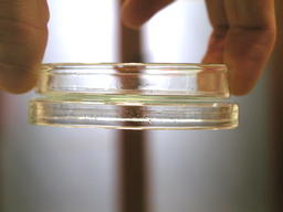 Due to the presence of a thin liquid film, a Petri dish remains attached to another Petri dish due to capillary adhesion.